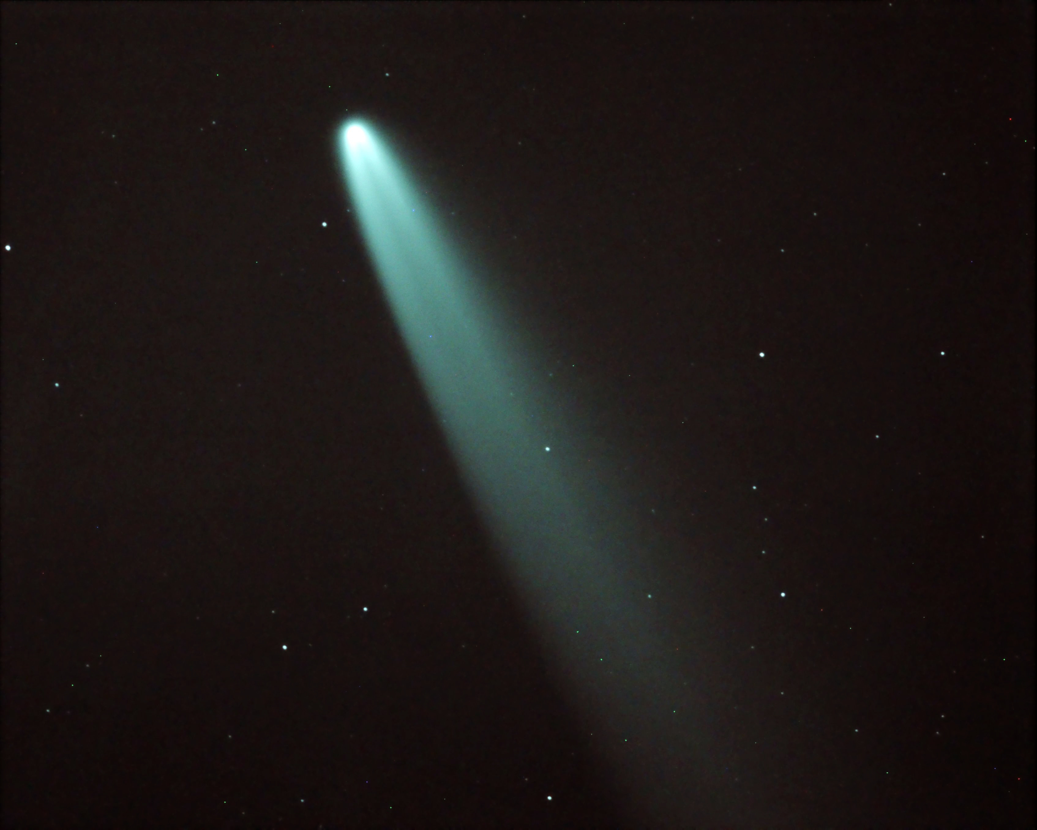 Comet Neowise, observed on July 09, 2020 as recorded by Raman Madhira from Ray's Astrophotography Observatory. A 11 inches RASA telescope plus a color CCD was used